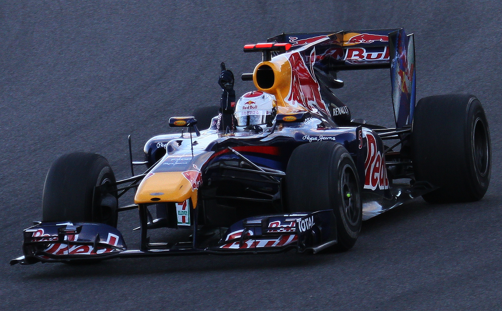 Formula One 2010 Rd.16 Japanese GP: Sebastian Vettel (Red Bull) won the race.